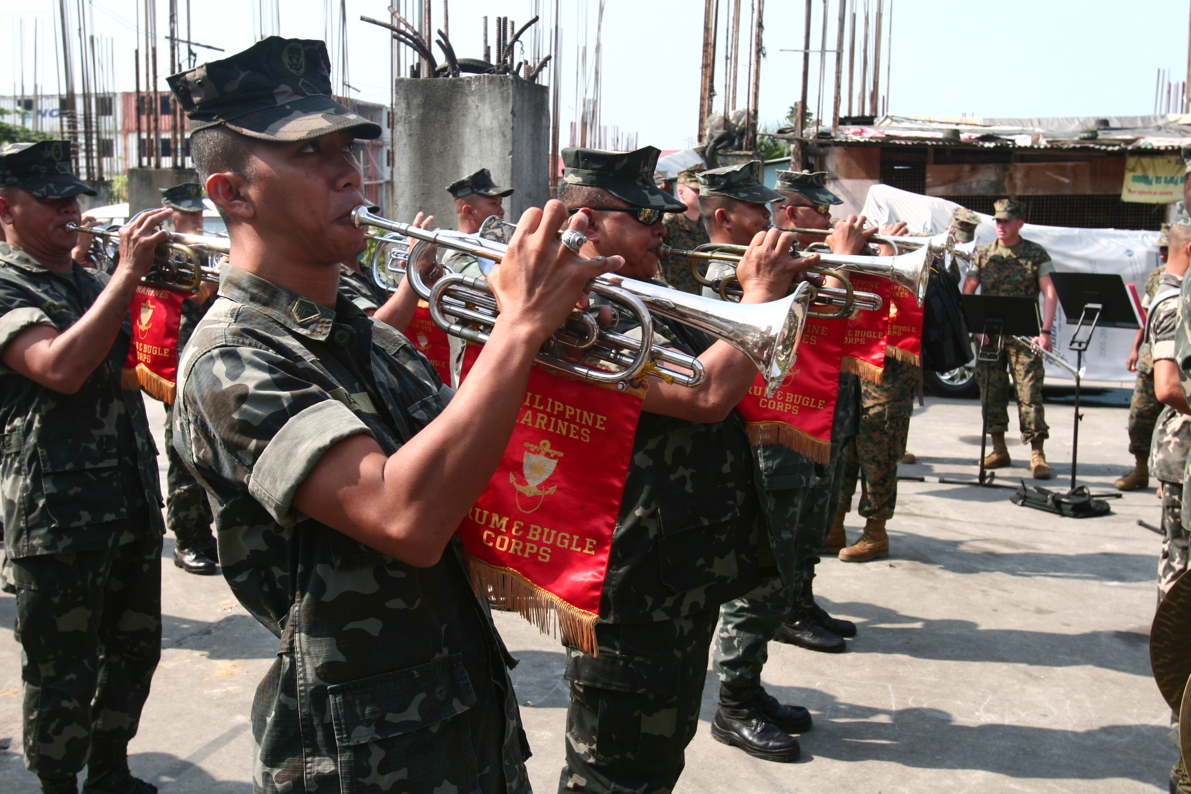 Members of the Filipino Marine Corps Drum and Bugle Corps play holiday songs during Operation Goodwill at Manila Day Care Center, Manila, Republic of the Philippines, Dec. 16. Operation Goodwill is a chance for U.S. Marines and their families stationed in Okinawa, Japan, to help spread holiday spirit during the holiday season.